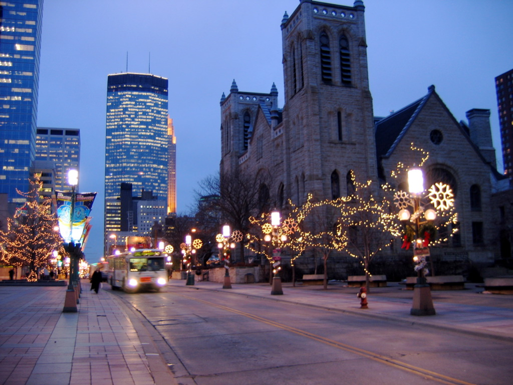 IDS Tower in Minneapolis, Minnesota, USA, as seen from one end of Nicollet Mall.